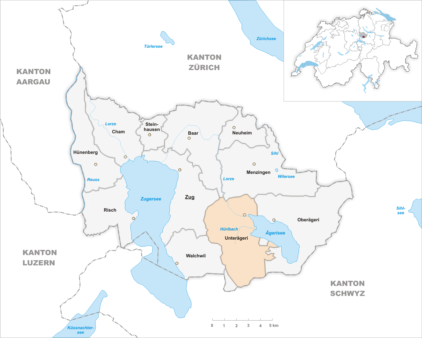 Municipality of Unterägeri